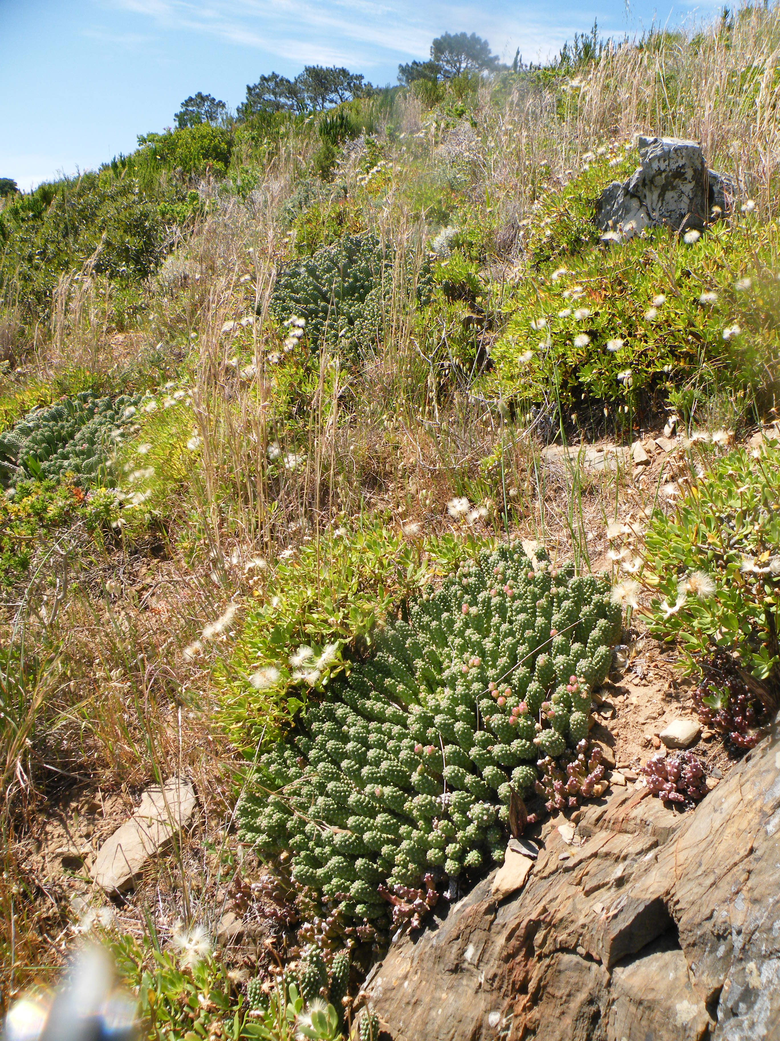 Euphorbia caput-medusae. Photo taken on Signal Hill, Table Mountain, South Africa.